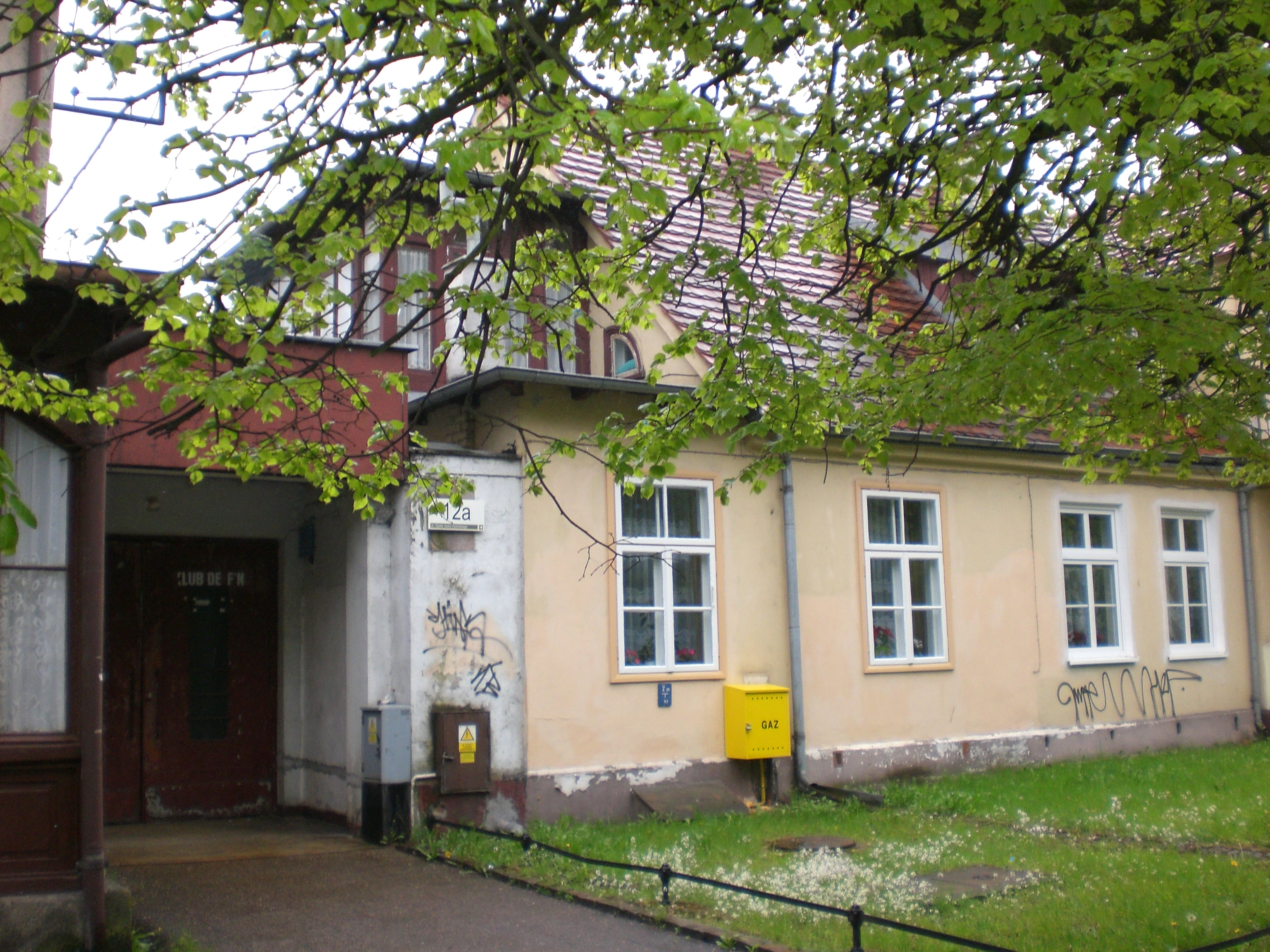 Former cinema in Gdańsk Oliwa